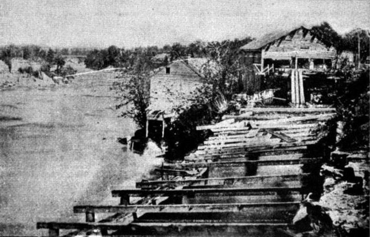 U.S. government grist mill and sawmill, Minneapolis, Minnesota 1858. Image is a poor copy. Please replace.